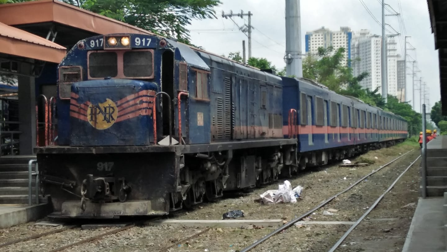 PNR DEL 917 hauling ex-JR East 203 series EMUs spotted at PNR Dela Rosa Station